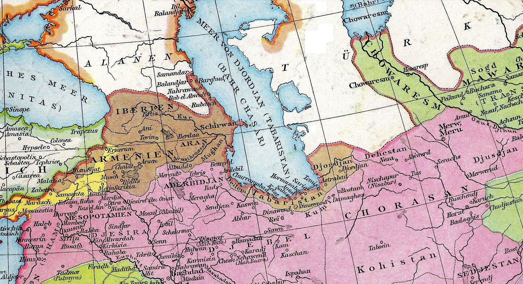 The Caliphate in 945 (centred on the southern Caspian Sea) from